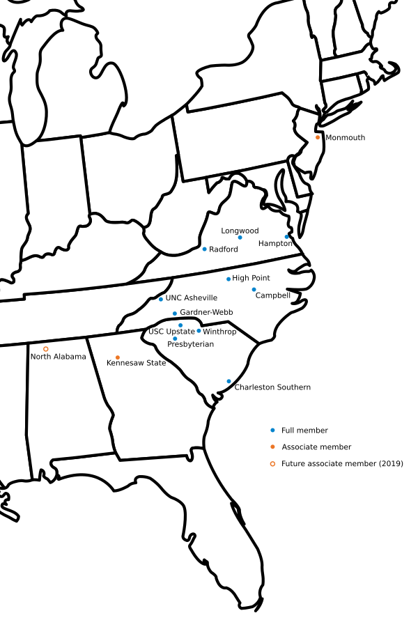 This is a graphic of the locations of Big South Conference full member institutions, as of 2016. It is based on a public domain map located here